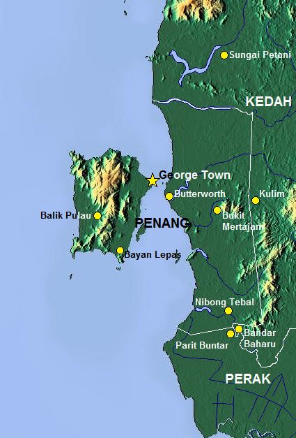 Map of Greater Penang Conurbation, which covers all of Penang and parts of Kedah